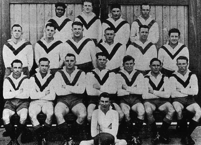 St George Rugby League team photo 1946